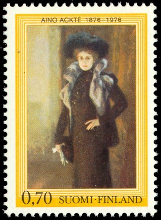 Postage stamp depicting Finnish opera singer, soprano Aino Ackte